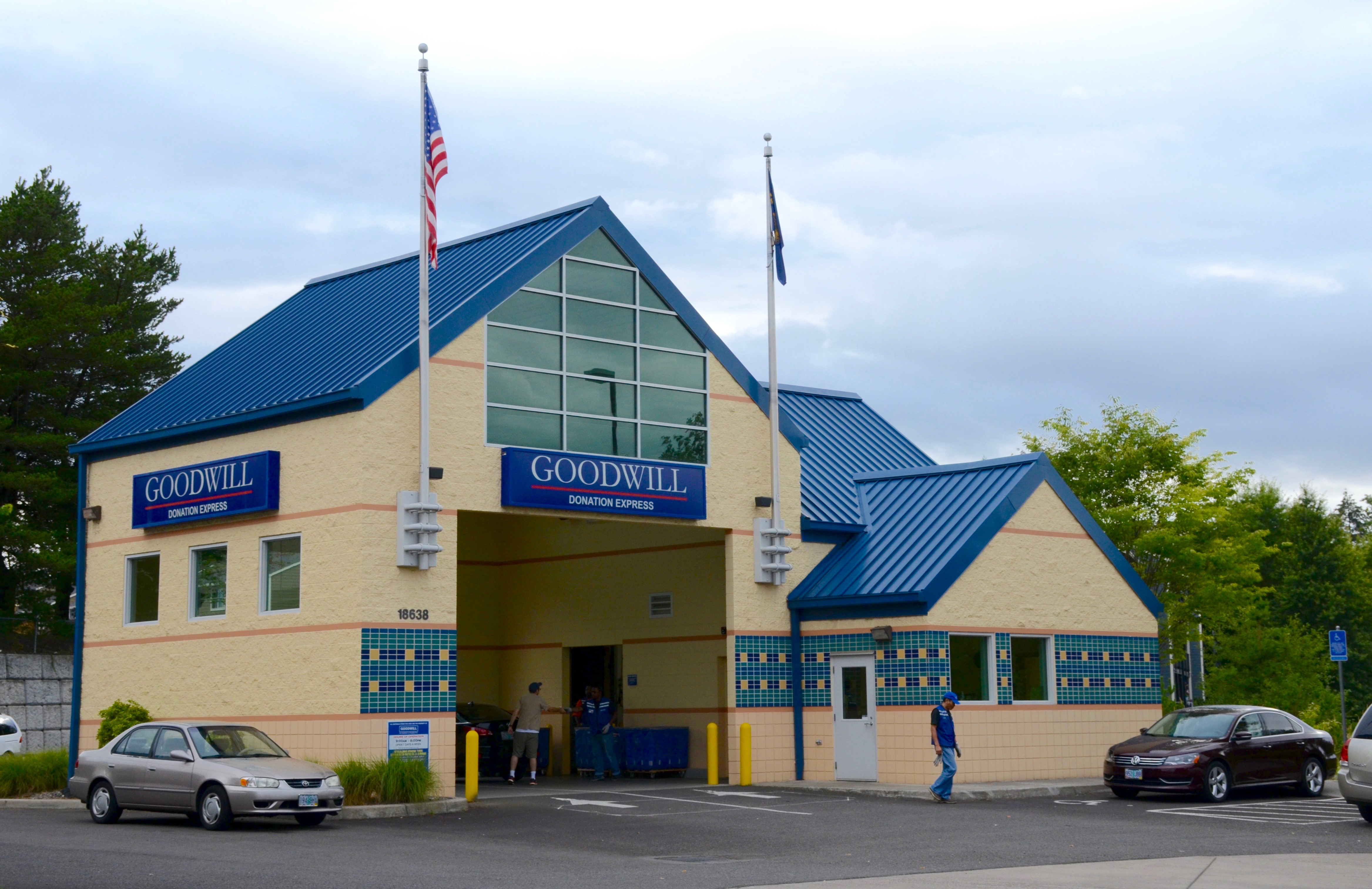 A Goodwill Donation Express center, a donation-collection center for Goodwill Industries, on NW Eider Court in eastern Hillsboro, Oregon (and just off of NW 185th Avenue, at the south end of the Tanasbourne area). Goodwill refers to this as its "Bronson Creek" location.